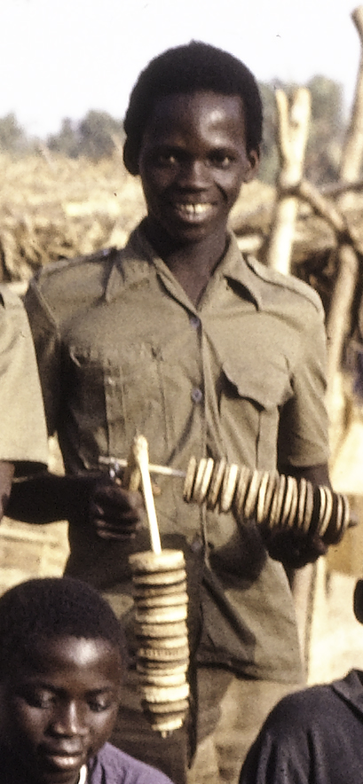 Two calabash rattles or sistra (also called West Africa sistrum, disc rattle, n'goso m'bara, rattle of the Bambara people and Wasamba or Wassahouba rattle).